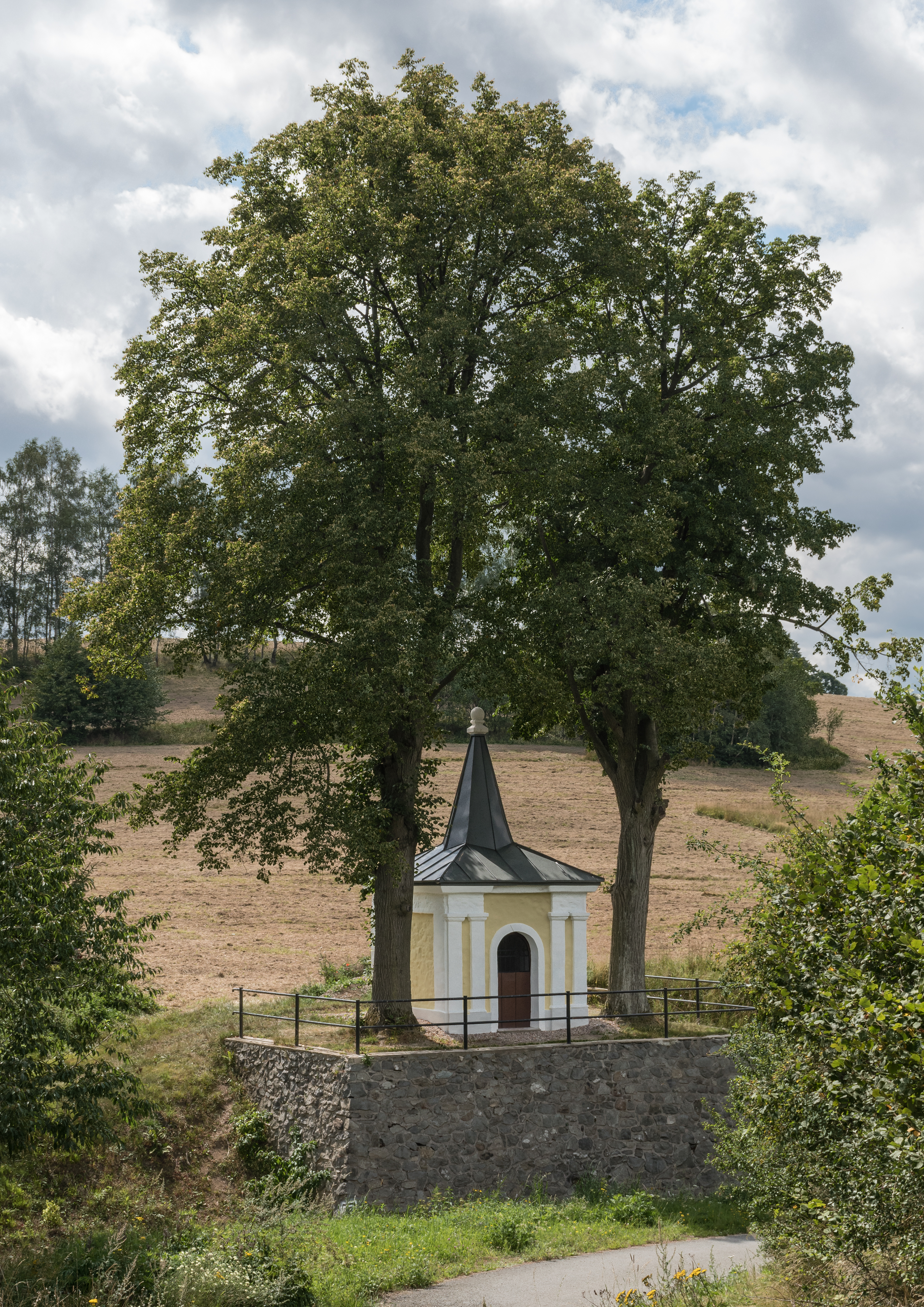 Roadside chapel on Droszkowska Pass